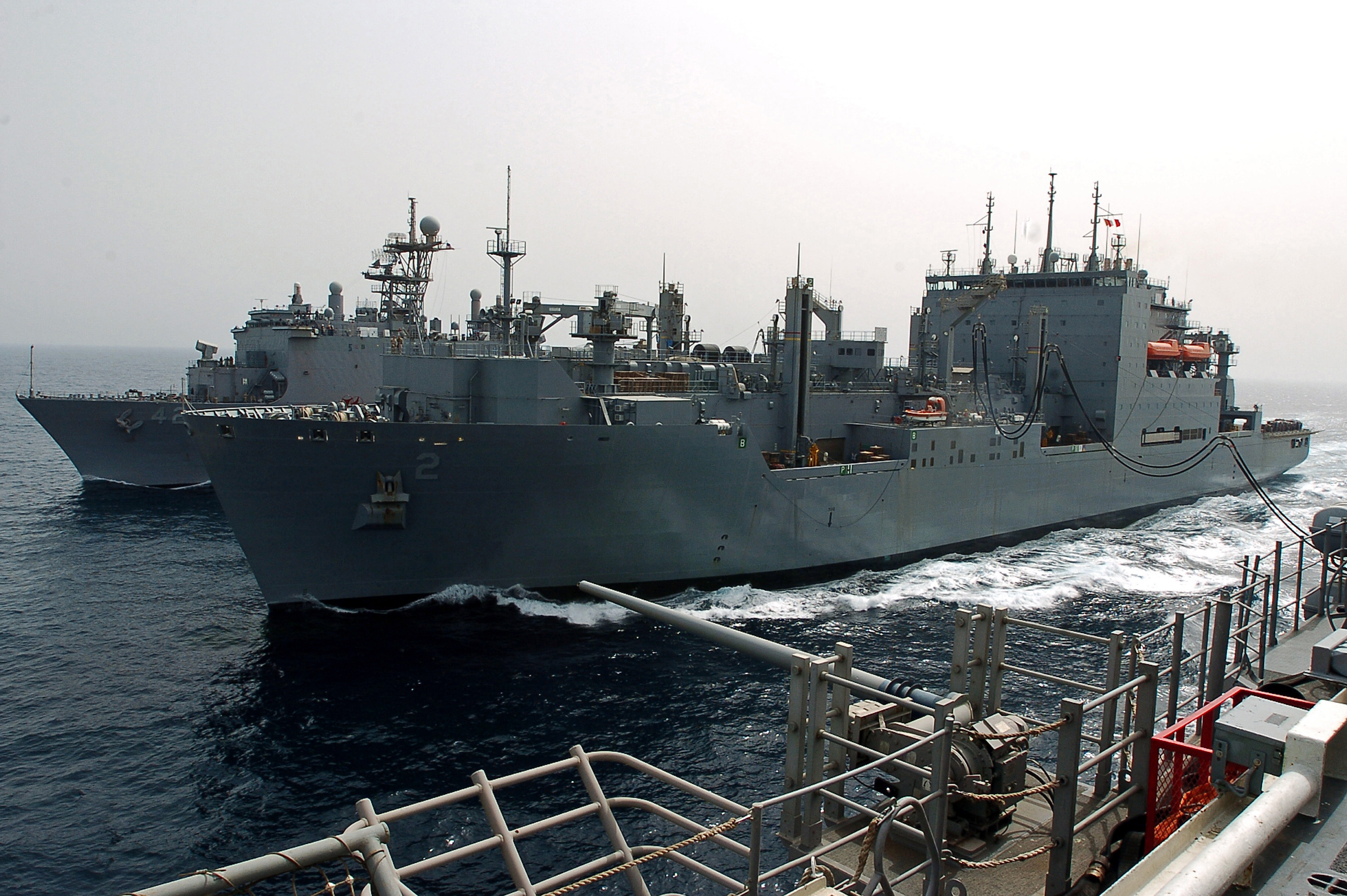 USNS Sacagawea (T-AKE-2) steams between the amphibious assault ship USS Tarawa (LHA-1), front, and the amphibious dock landing ship USS Germantown (LSD-42) while conducting a vertical replenishment with both ships in the Persian Gulf, 18 March 2008. US Navy photo # 080318-N-8335D-787 PERSIAN GULF (March 18, 2008) by MC1 Richard Doolin